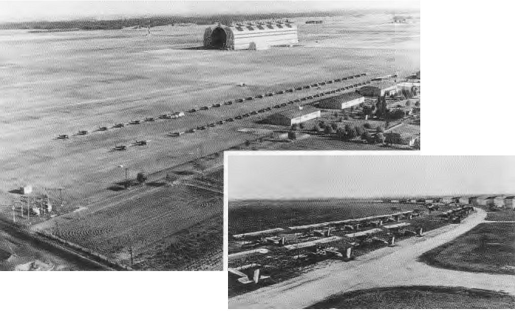 Curtiss JN-4s on the flight line at Scott Field, Illinois, 1917